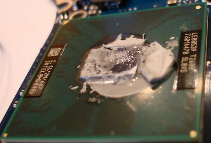 Look at all the air bubbles in the glob of thermal paste... not to mention the giant splotch to the right of the core.